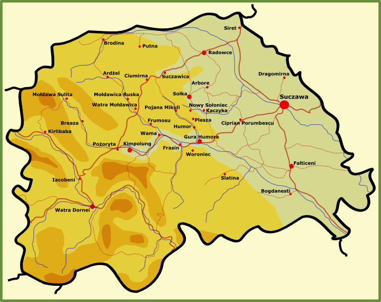 Map of Southern Bukovina and Suceava county with the localities inhabited by poles.